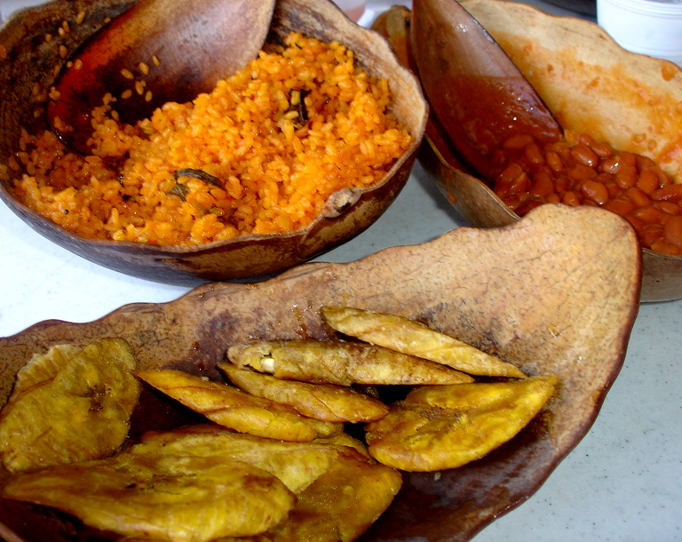 Cuisine of Puerto Rico. Although Puerto Rican cooking is somewhat similar to both Spanish and other Hispanic cuisines, it is a unique blend of influences